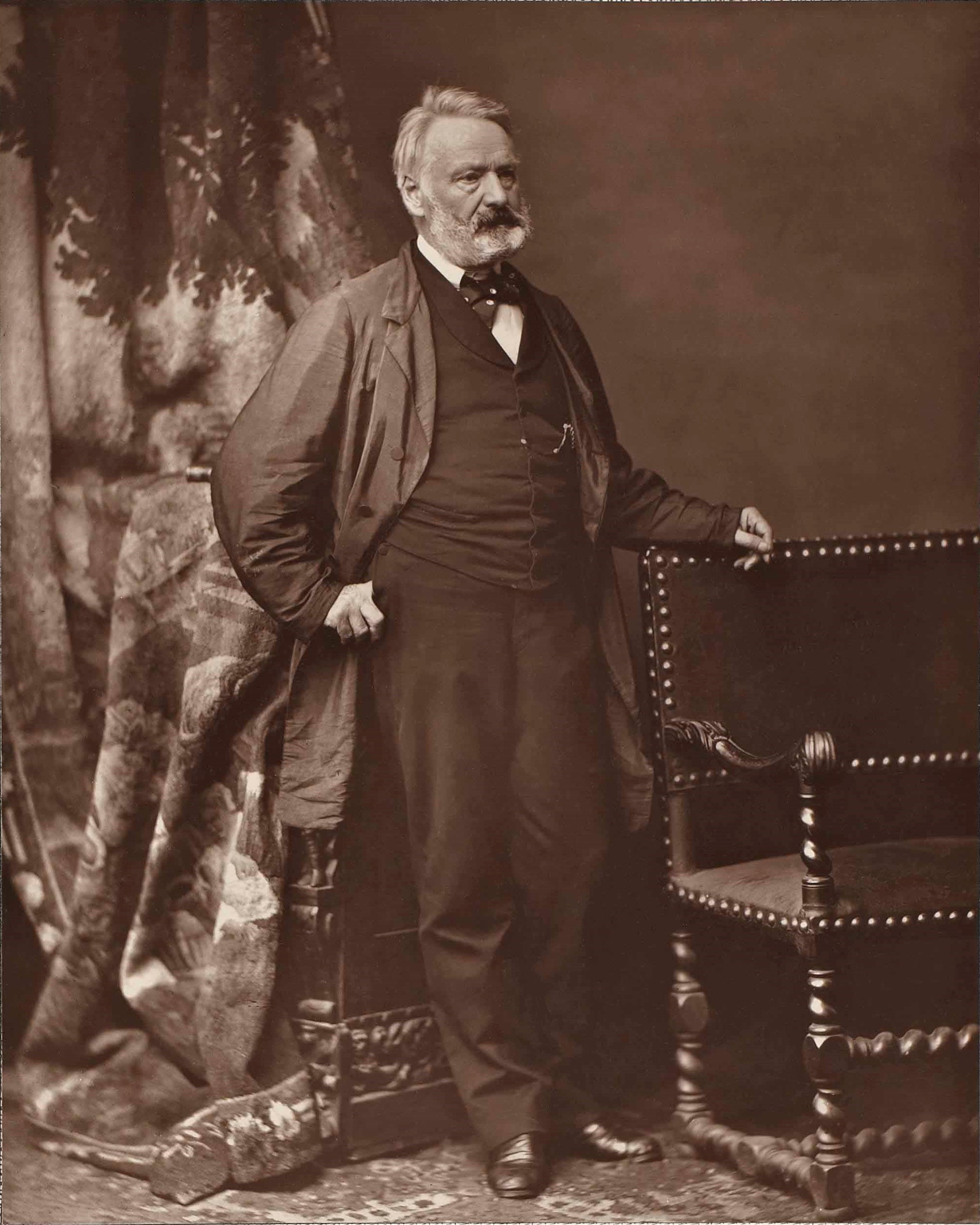 French writer Victor Hugo (1802-1885) photographed by Bertall (1820-1882)